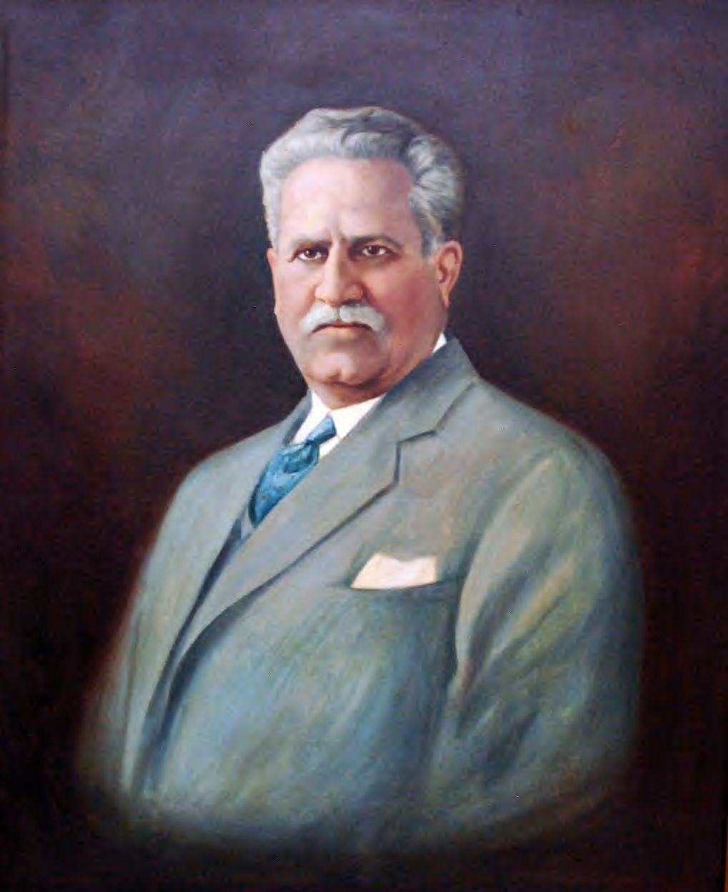 Painting of the Honorable Antonio Rafael Barceló, former Secretary of State of Puerto Rico.